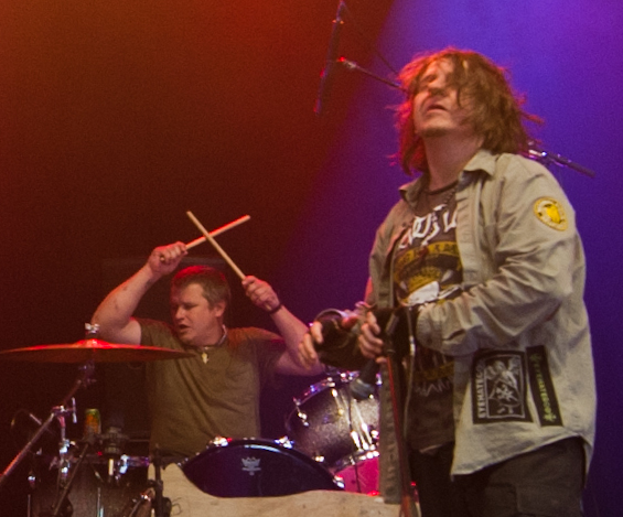 Mike IX Williams and Joey Lacaze while Roskilde Festival 2011